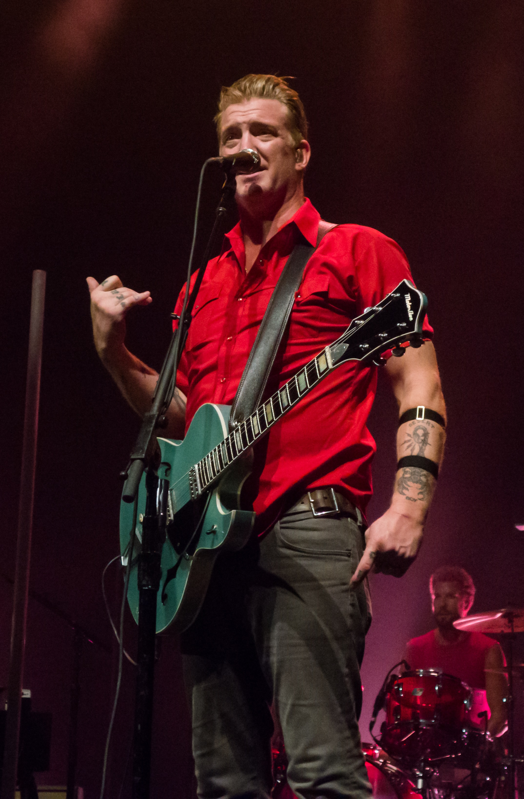 Josh Homme Performing with Queens of the Stone Age on December 3, 2017 in Saint Paul, Minnesota